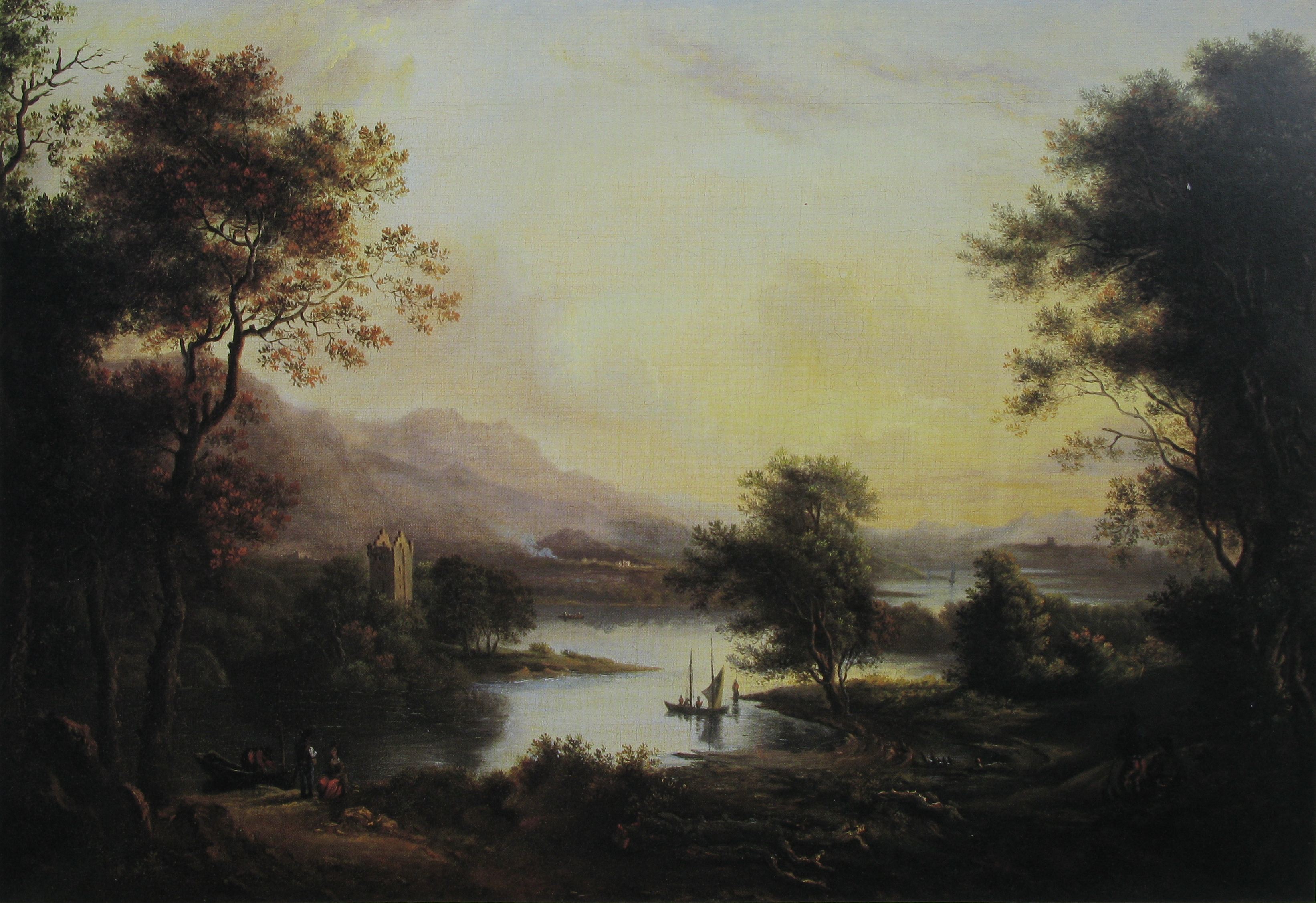 A Highland Loch Landscape; Oil on Canvas, 48 x 70 cm.